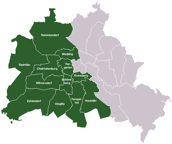 Berlin, Germany – divided – Berlin (West), with district names .